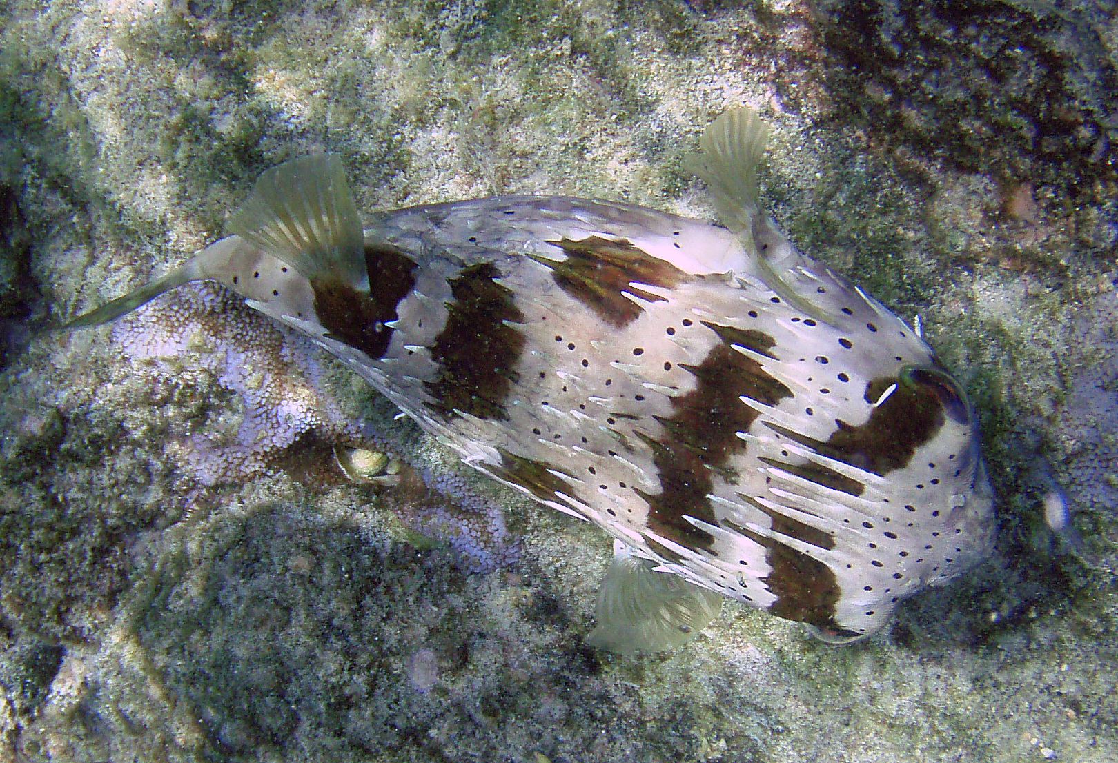 Long-spine porcupinefish, Diodon holocanthus in Kona